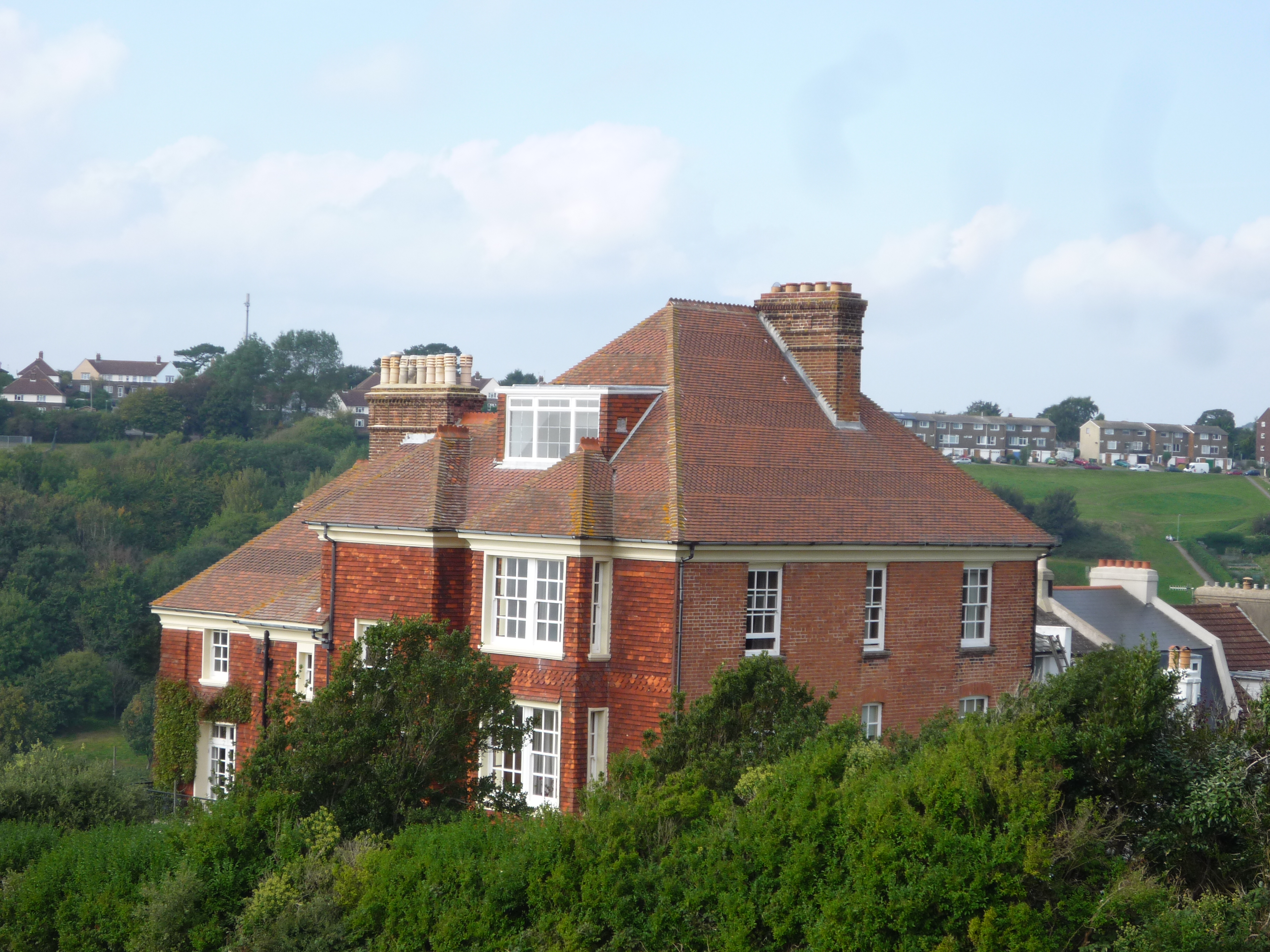 Windycroft from the back